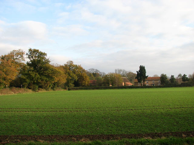 Houses beside The Fairstead Seen from near the war memorial where The Fairstead ends.